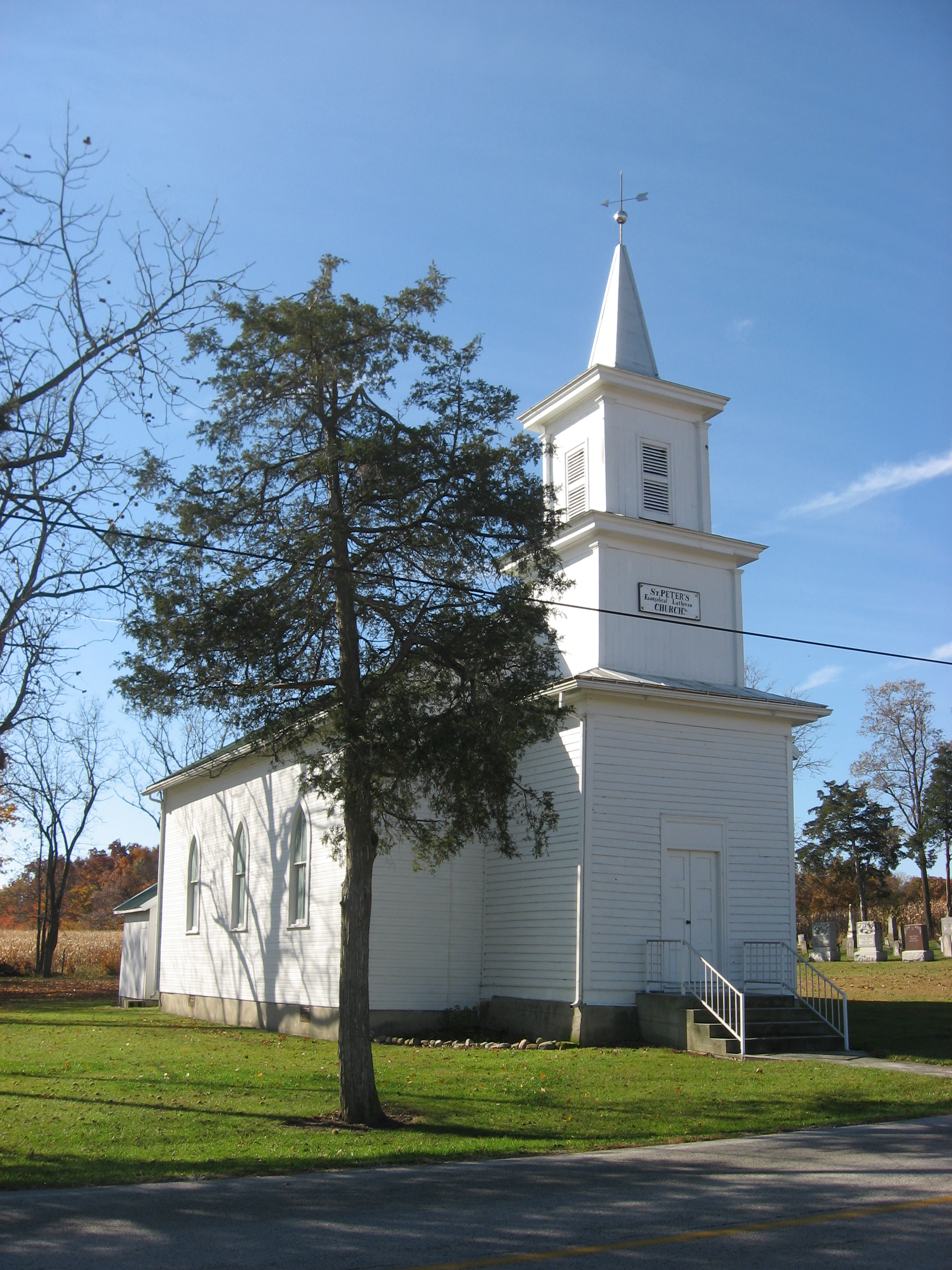 Front of St. Peter's Evangelical Lutheran Church, located on the southern side of St. Peter Road south of Versailles in Wayne Township, Darke County, Ohio, United States. Built in 1850, it is listed on the National Register of Historic Places.